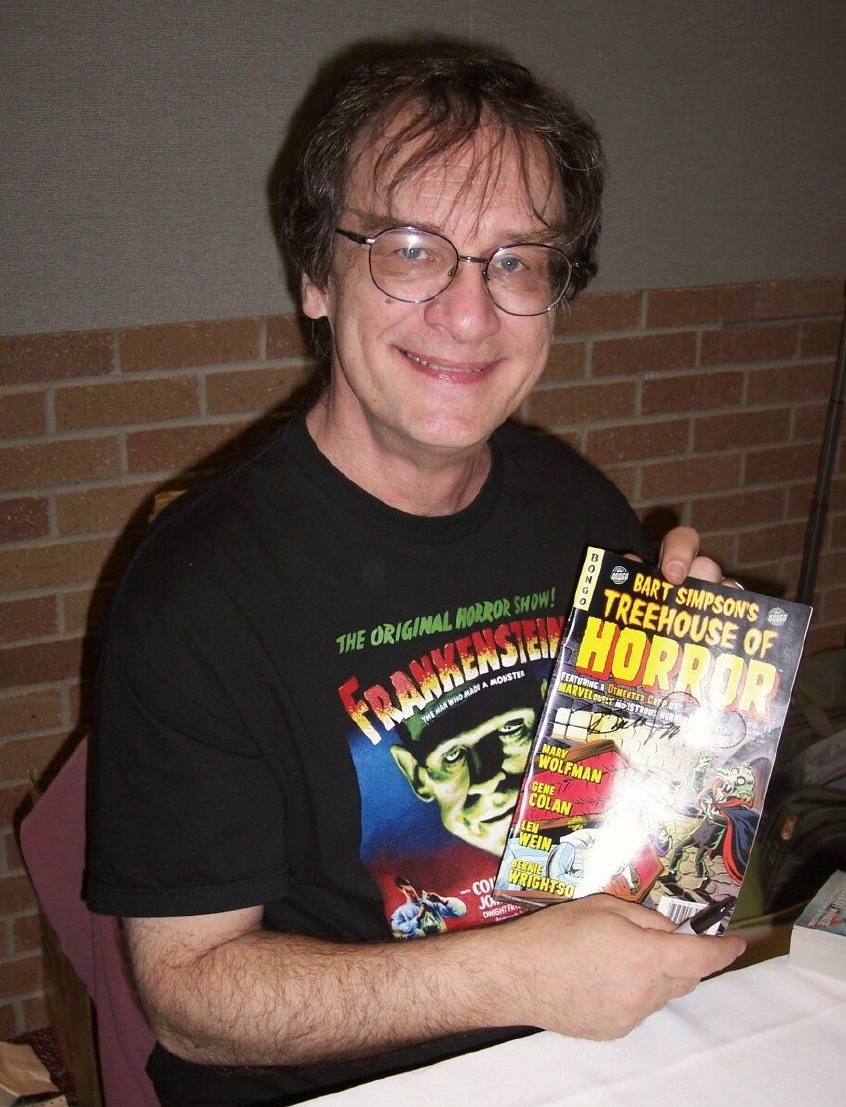 American comic book artist Bernie Wrightson at the 2006 Dallas Comic Con.